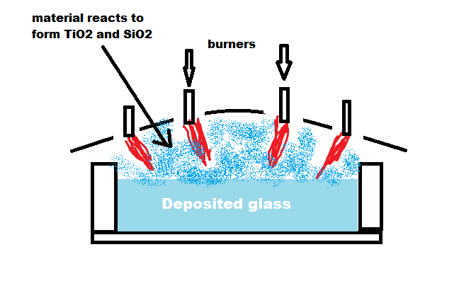 Diagram of ULE glass formation.